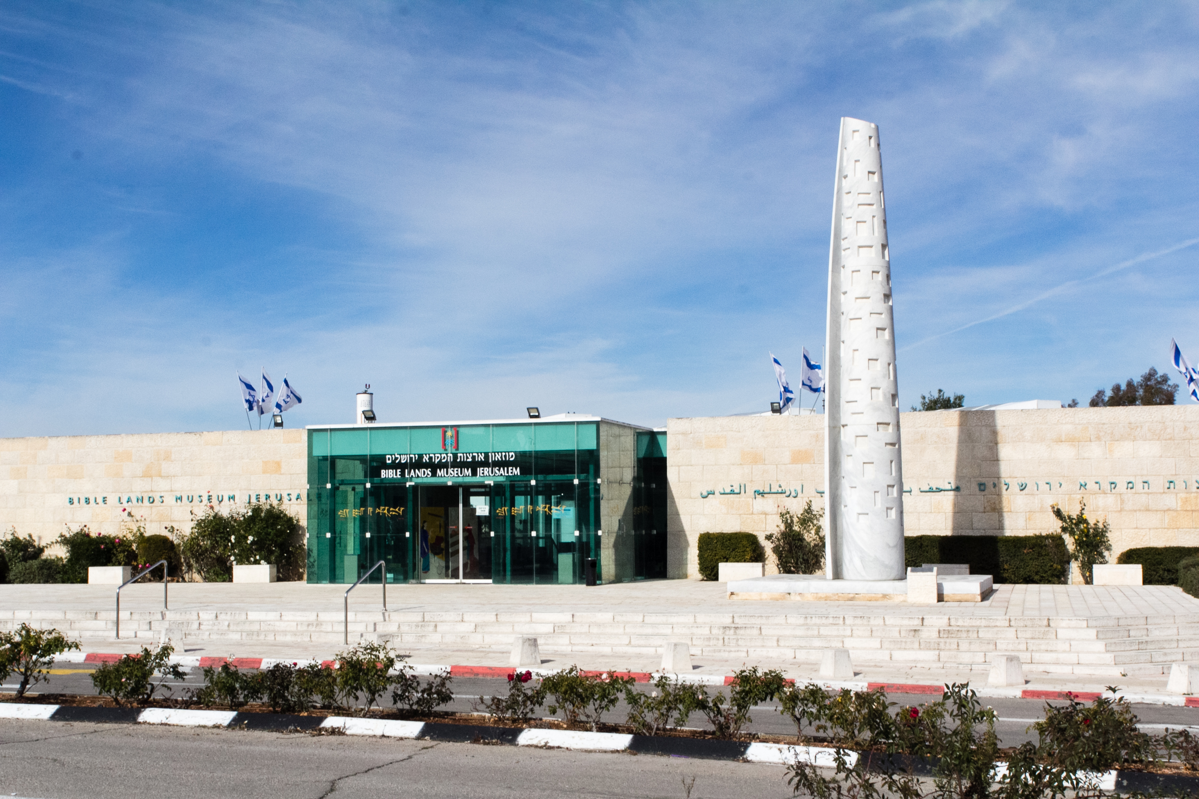 Manel Alvarez's "Tower of Babel" in front of the Bible Lands Museum Jerusalem